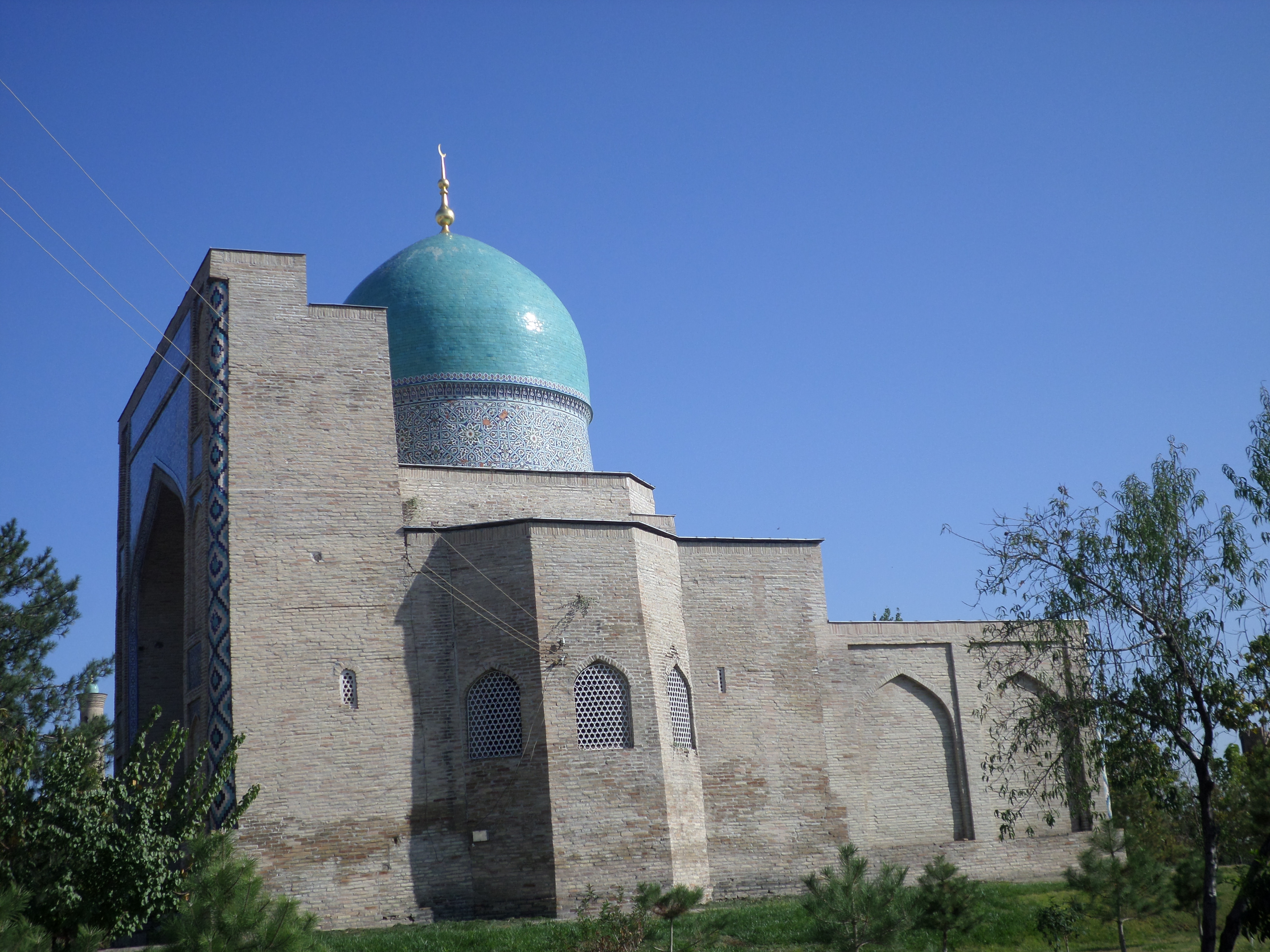 Mavzoley Kaffal Shashi